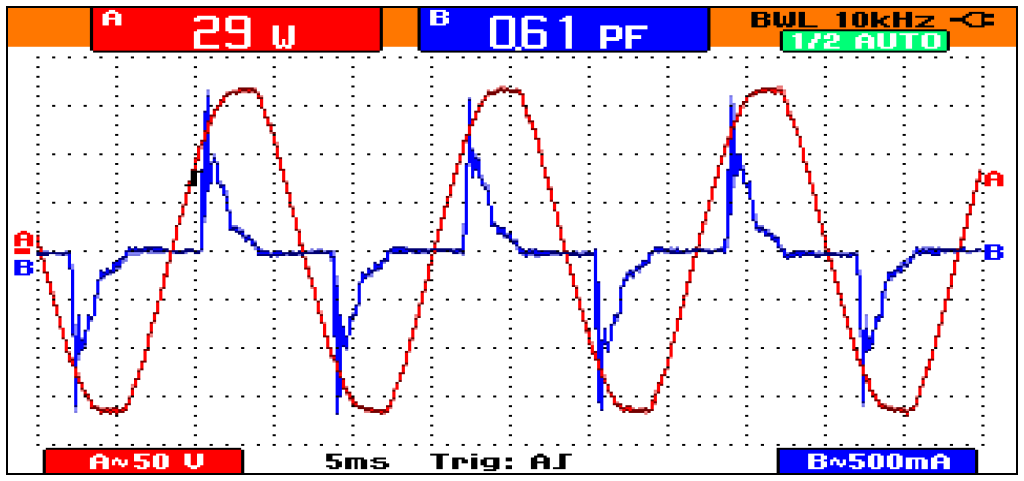 Voltage and current waveforms for a 30 watt 120 volt compact fluorescent lamp. Although the average current is only about 0.5 ampere, the current waveform is quite distorted and has many harmonics. As a result this lamp shows a power factor of 0.61 while using about 29 watts. Image captured with a Fluke 192C Scopemeter.